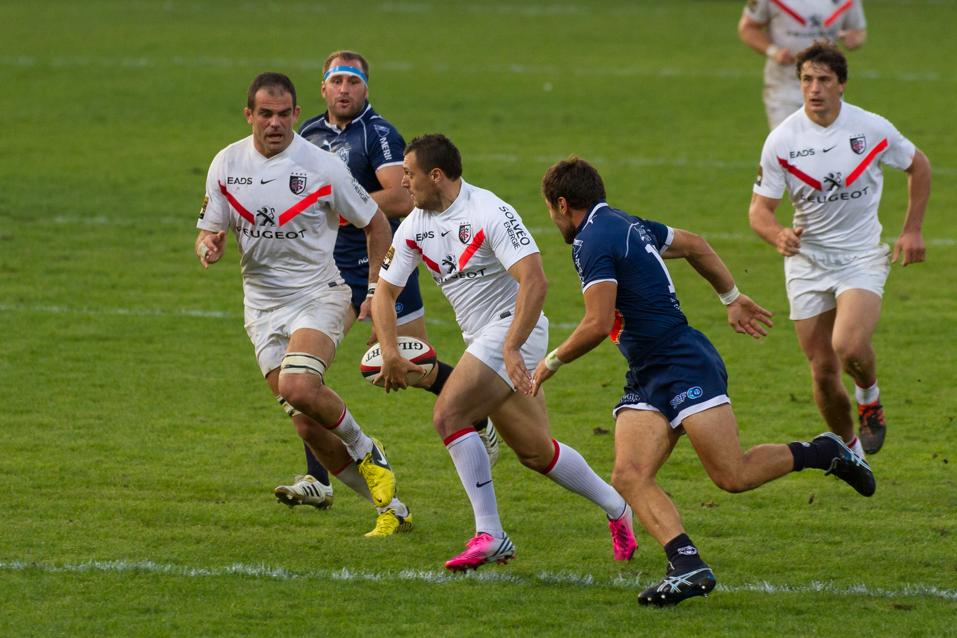 Lionel Beauxis performs a chistera pass to Grégory Lamboley